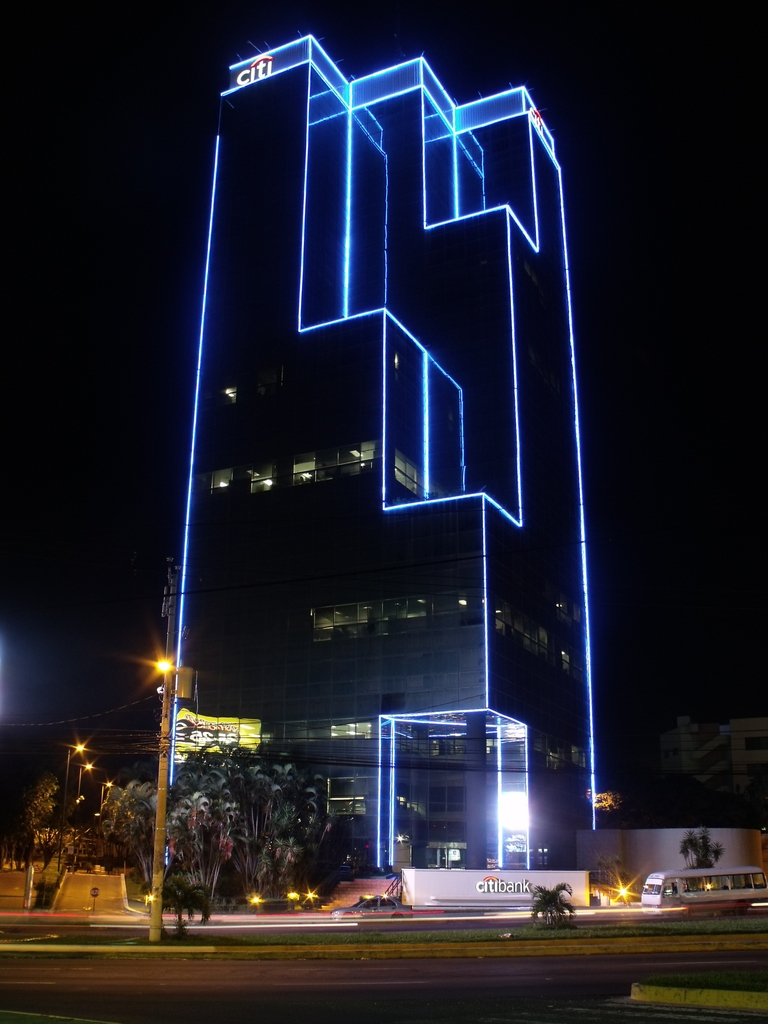 Night view of the corporate tower bank in San Salvador